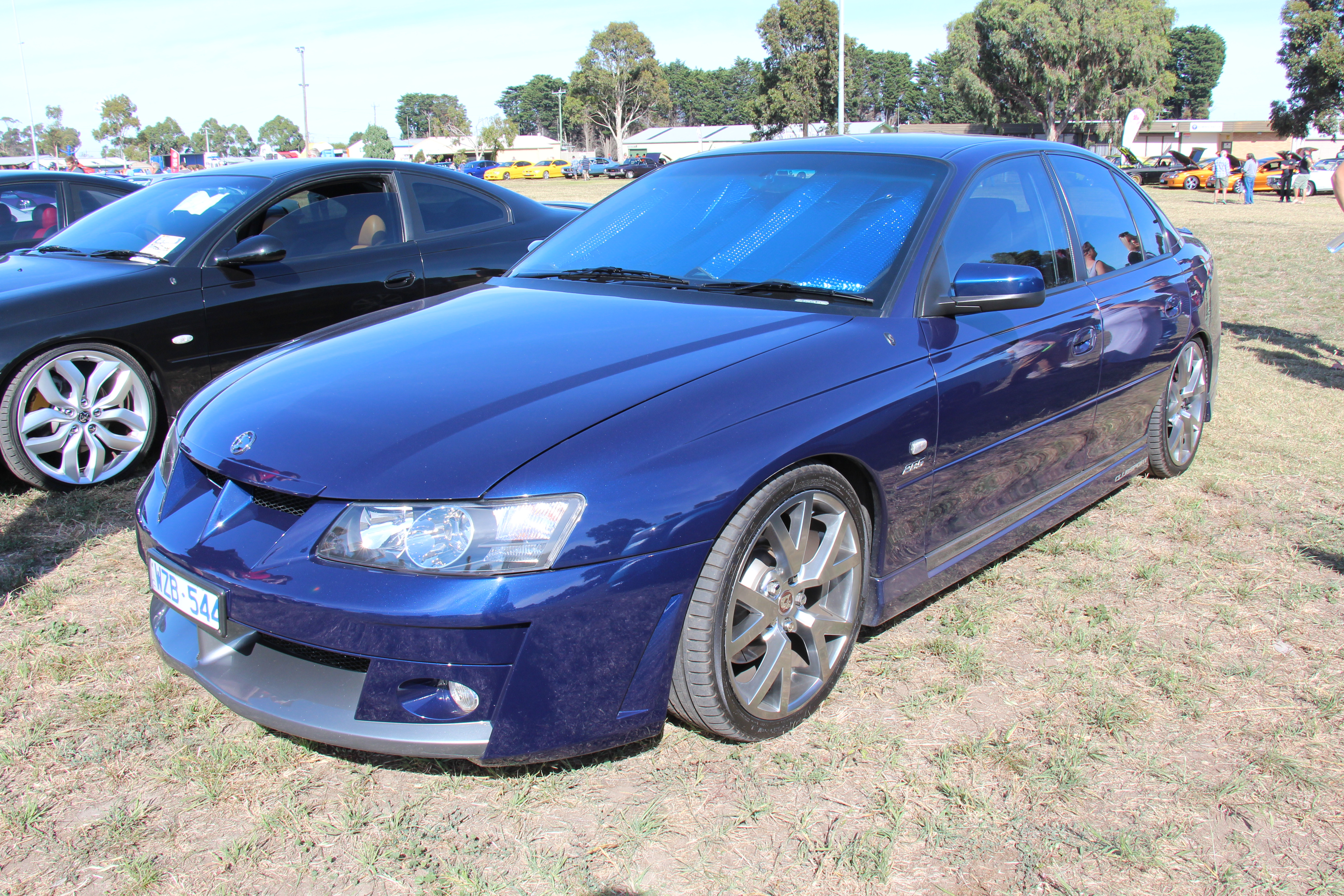 08/2003 Holden VY HSV Clubsport